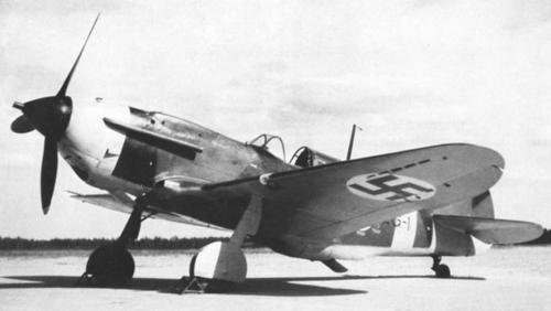 Finnish Air Force LaGG-3